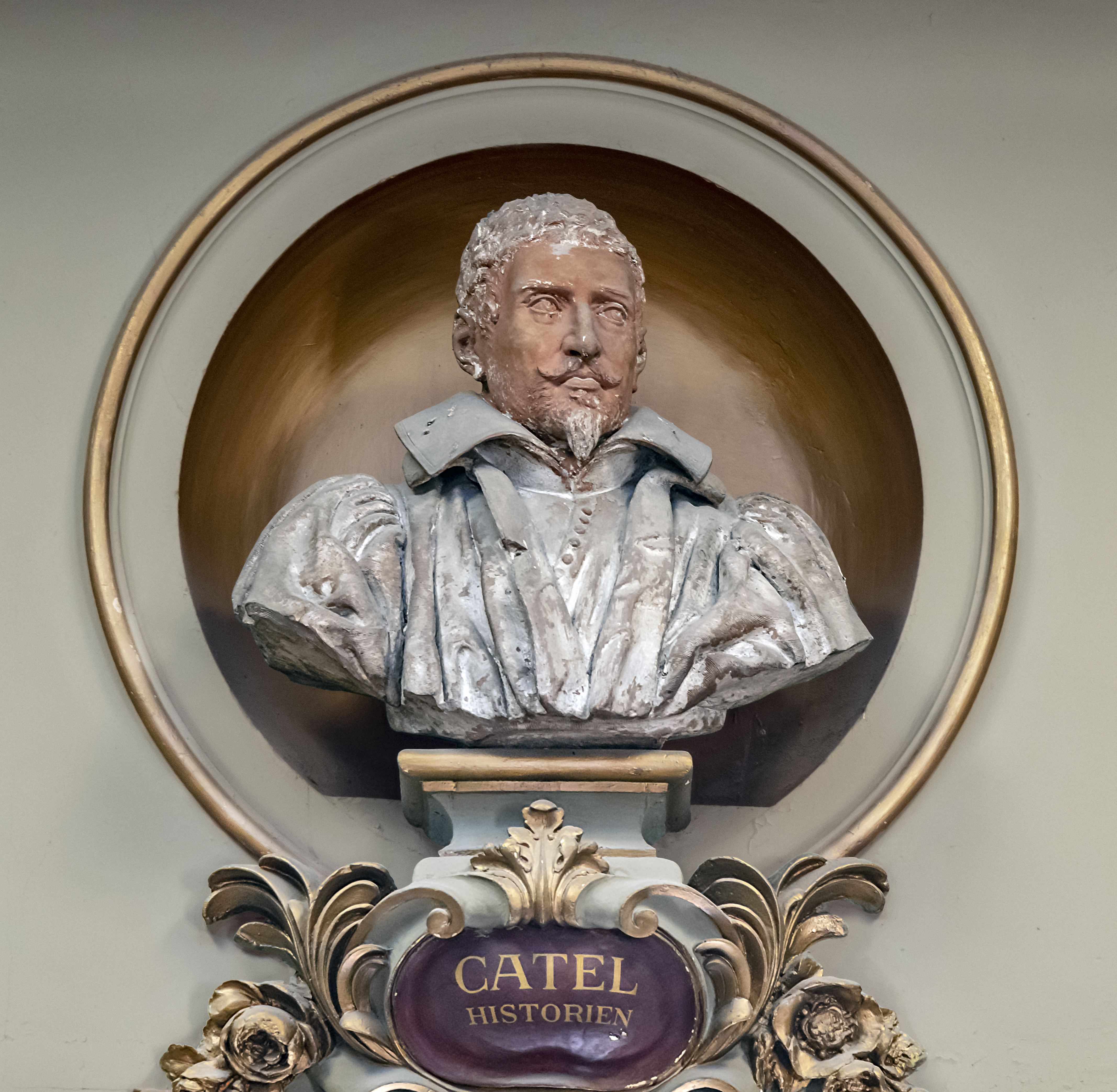 Depicted person: Guillaume Catel – French historian